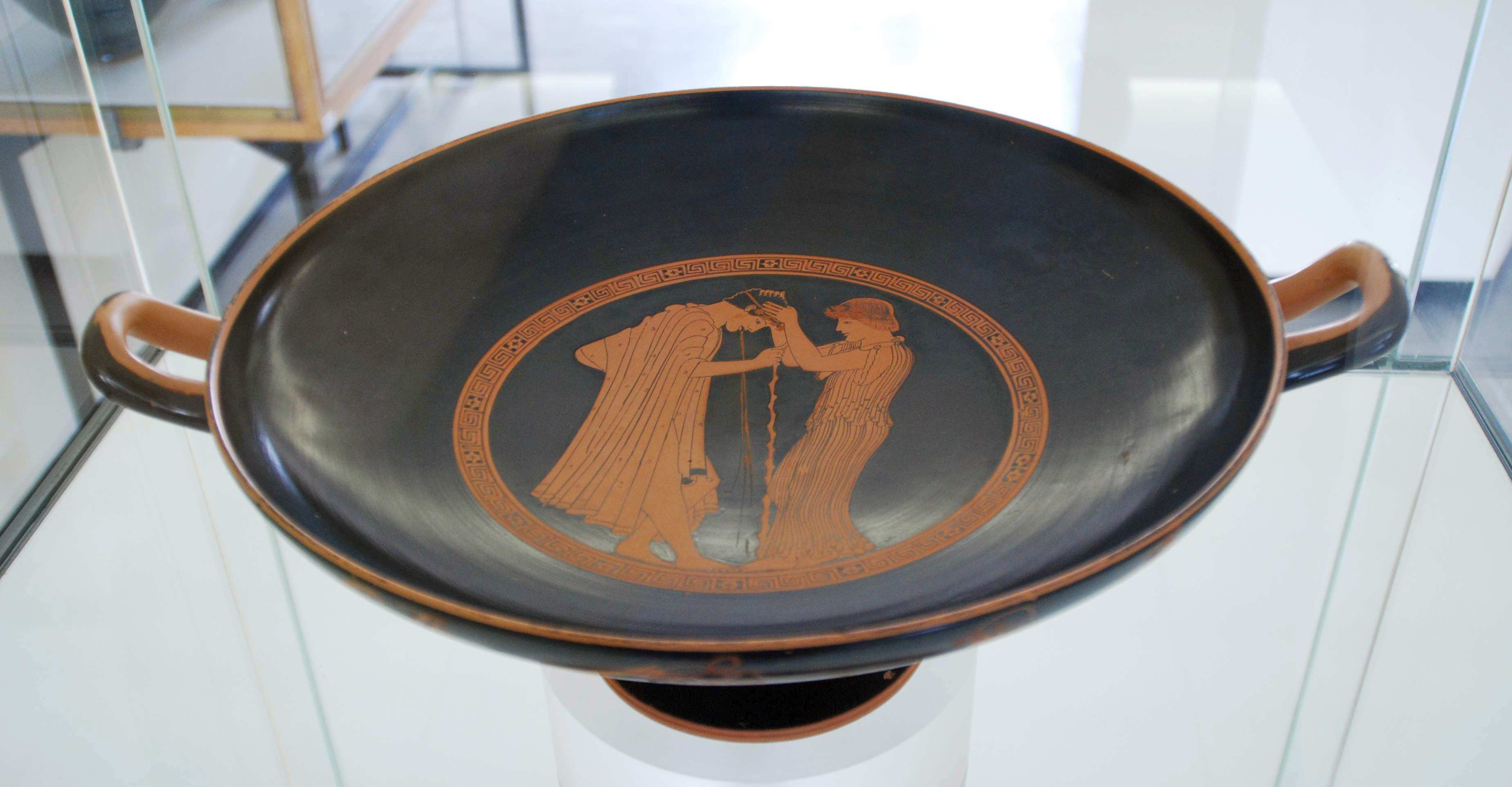 Attic Kylix made (signed) by the potter Brygos, painted by the Brygos painter; Tondo: vomiting young man at a symposium, head held by a blonde Hetaira, outsites: Komasts; Martin von Wagner Museum Würzburg (Inventarnumber HA 428 [= L 479]; High 14 cm, Diameter 32,2 cm